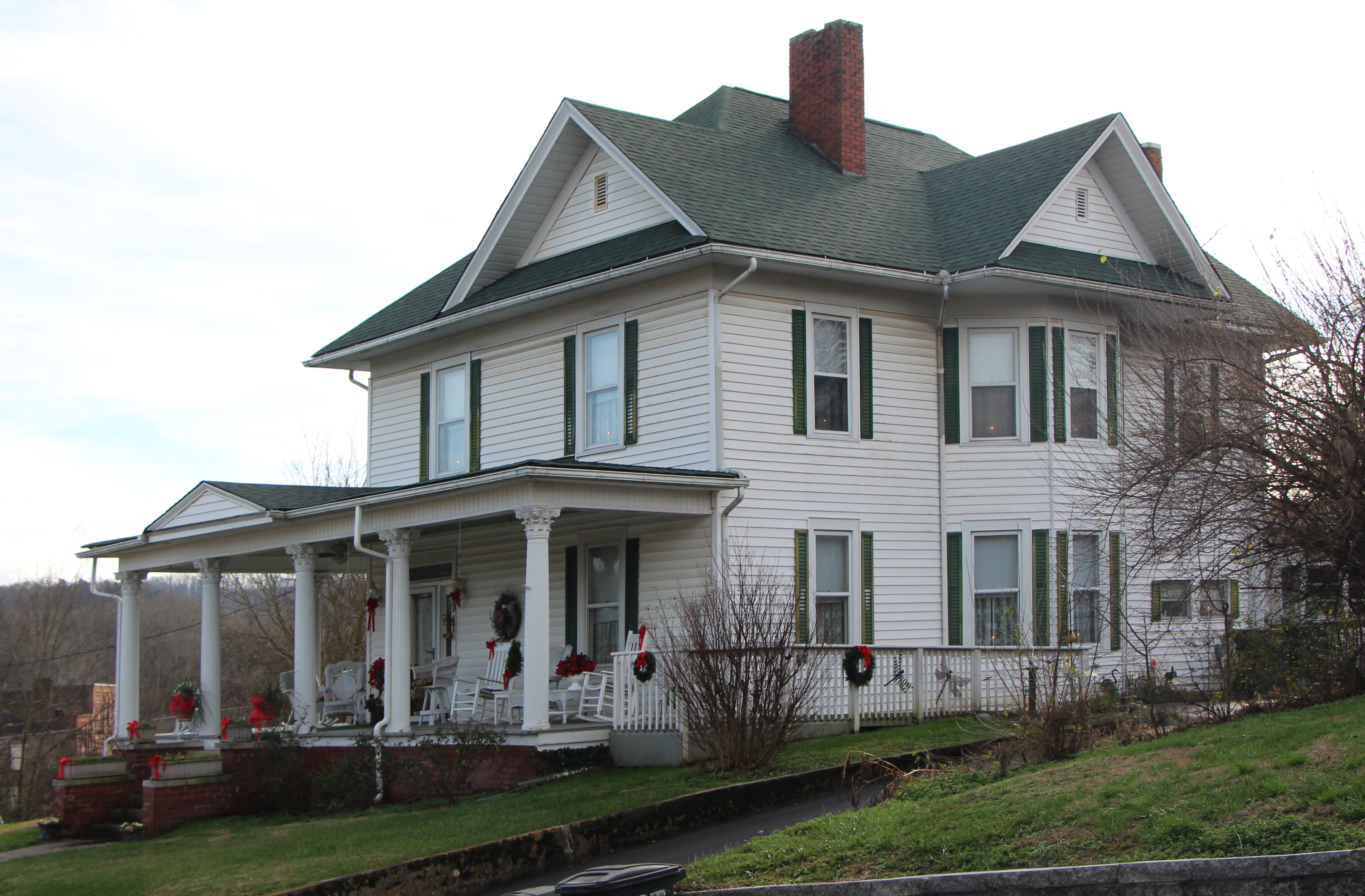 Willoughby Residence, 138 South Main Street, Bulls Gap, TN